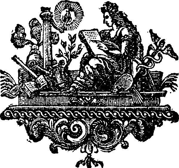 Fleuron from book: Six plays, Written by Mr. Mountfort. In Two Volumes. ... . Containing, I. The Injur'd Lovers, or, The Ambitious Father. II. The Successful Strangers. III. Greenwich Park. To which is prefix'd some Memoirs of the Life of Mr. Mountfort.